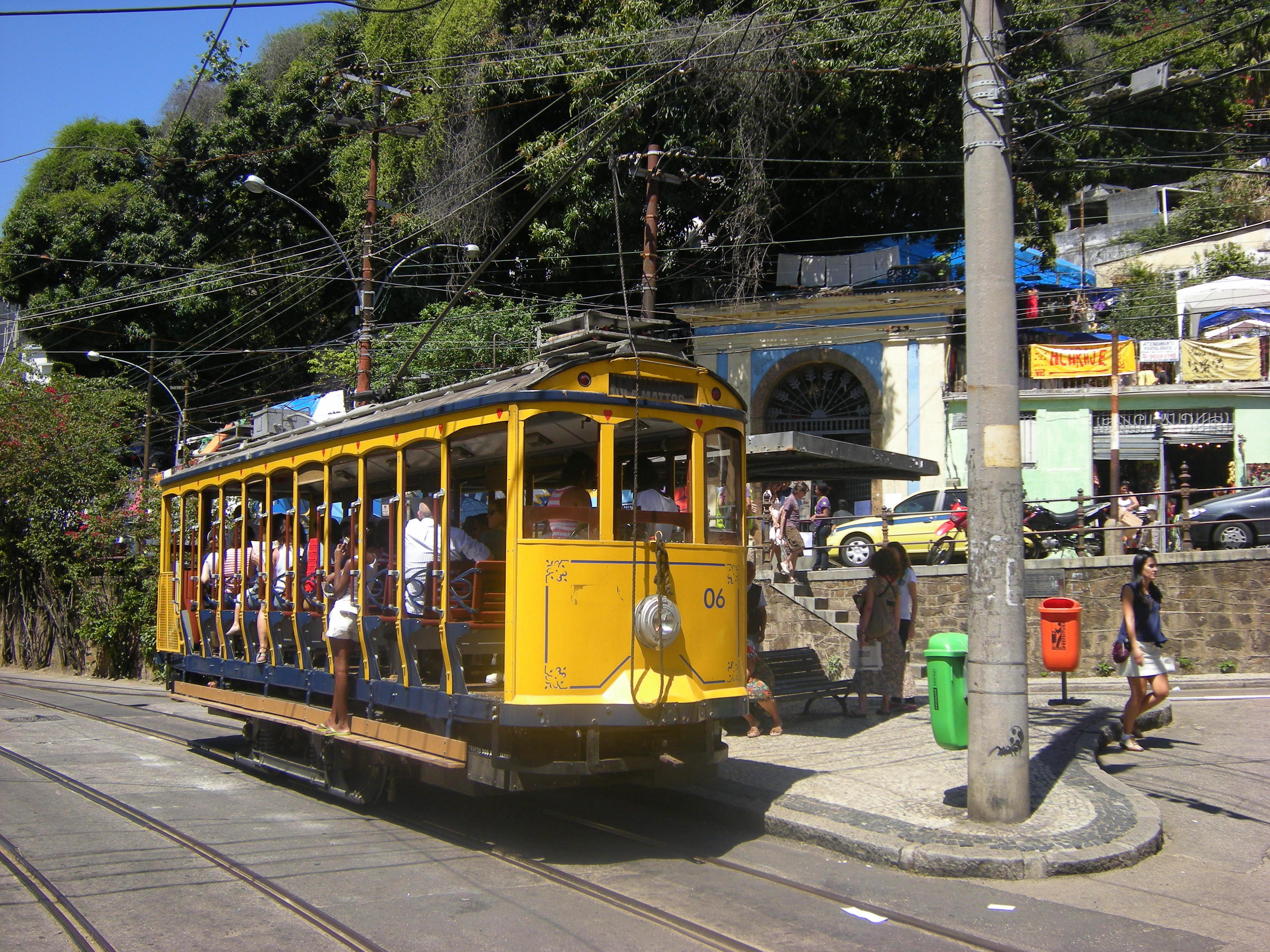 Car 06 of Rio de Janeiro's Santa Teresa tramway stopped at Largo do Guimarães, inbound on the Paula Matos line (spelled "Paula Mattos", an older and non-Portuguese spelling, on the trams' signs). The tracks in the middle right part of the photo lead to Dois Irmãos, the main line. The two lines converge at this junction.